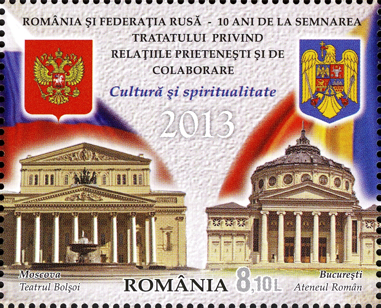 Stamps of Romania, 2013